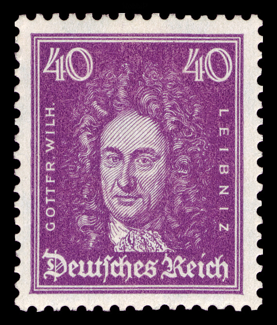 series of stamps of the German Empire, Gottfried Wilhelm Leibniz (1646-1716) Ausgabepreis: 40 Pfennig First Day of Issue / Erstausgabetag: 1. November 1927 Michel-Katalog-Nr: 395 (Deutsches Reich)